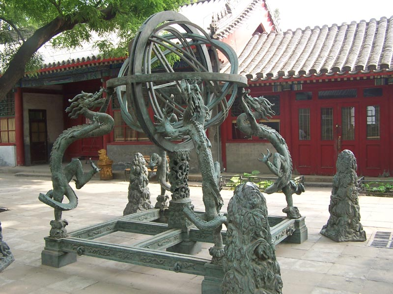 a replica of Ming Dynasty's Armillary in the courtyard of Beijing Ancient Observatory